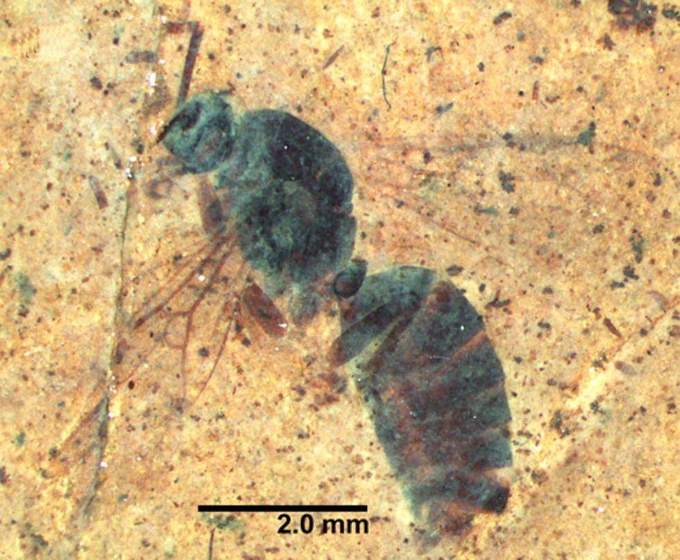 Profile view of the Formica annosa holotype male. Lutetian, Middle Eocene; Kishenehn Formation; Middle Fork of the Flathead River, Montana. United States. US Natural History Museum, Washington D.C., United States; specimen USNM609591